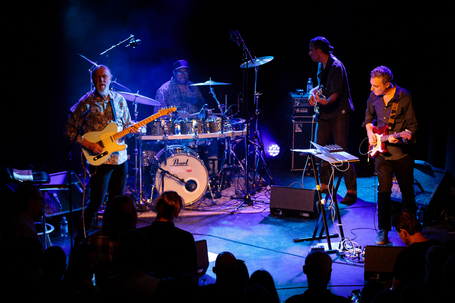 John Scofield at the stage of Energimølla. The concert was part of Kongsberg Jazzfestival and took place on 06. July 2017. Lineup: John Scofield (guitar) Dennis Chambers (drums) Avi Bortnick (guitar) Andy Hess (bass guitar)